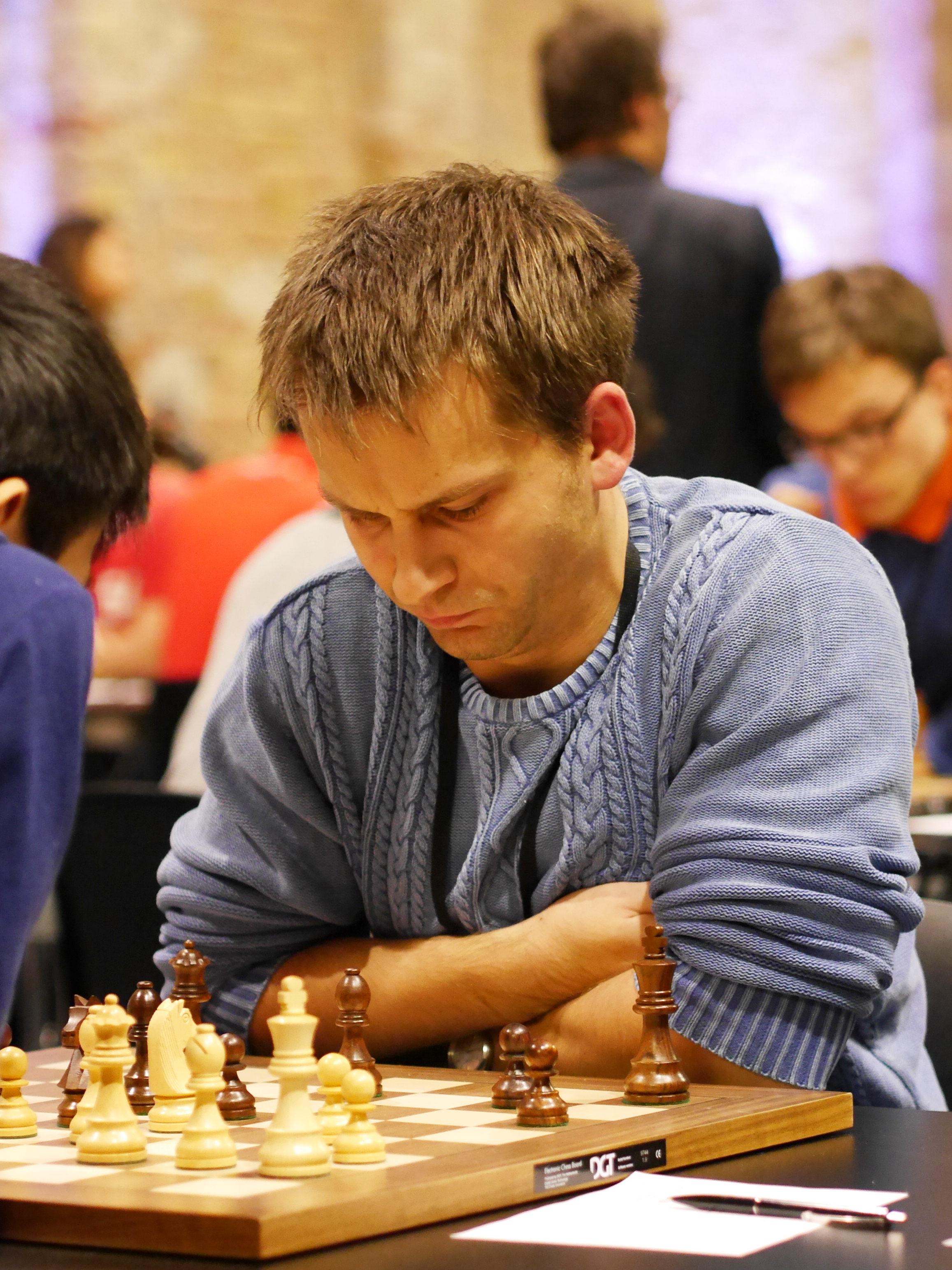 Andrei Volokitin at the FIDE World Rapid Chess Championship 2015 in Berlin